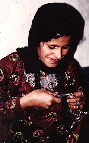 Yemenite silver smiths at work in the region of Wadi Awlah, Yemen 1980s.